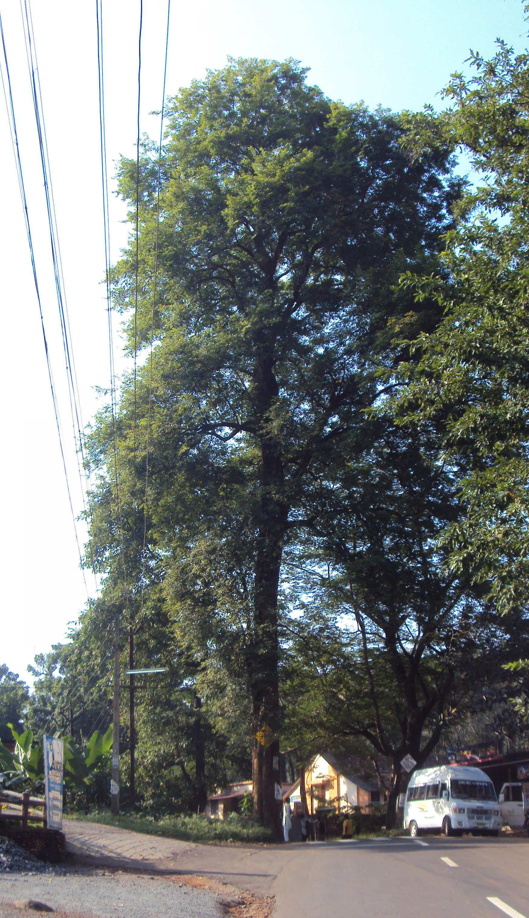 Dalbergia latifolia - വീട്ടിമരം